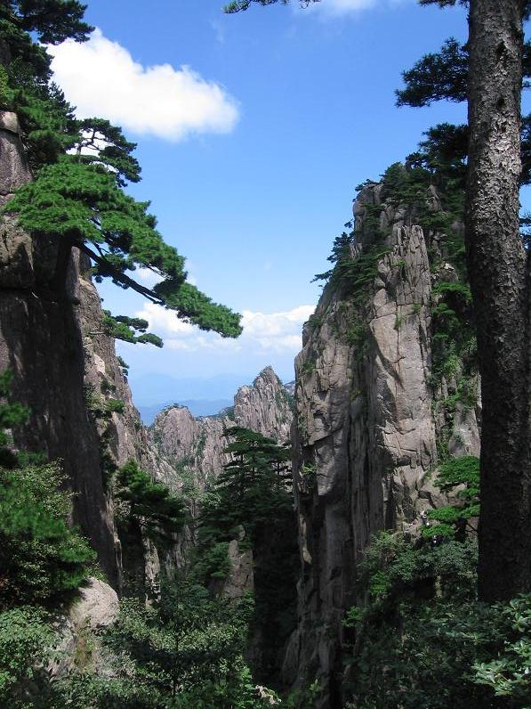 View from Mt. Huangshan, Anhui, China, with Pinus hwangshanensis Taken by Ariel Steiner, August 2005